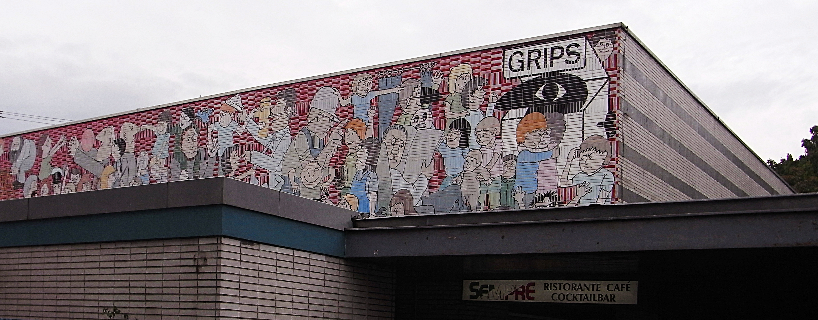 Rainer Hachfeld, street side of the Grips Theater (1974 or later), mosaic from painted flaggings – D-1057 Berlin-Hansaviertel, Altonaer Str. 22. The Grips-Theater emblem - black head with eye in box - was made by Jürgen Spohn.